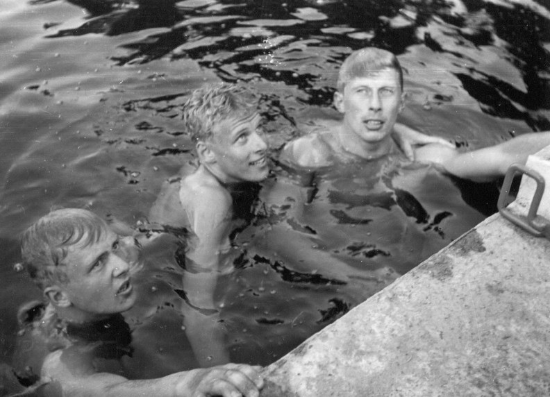 At the Finland-Norway swimming championships of 1954. From left to right: Kai Hagelberg, Erik Gulbrandsen, Aulis Kähkönen.